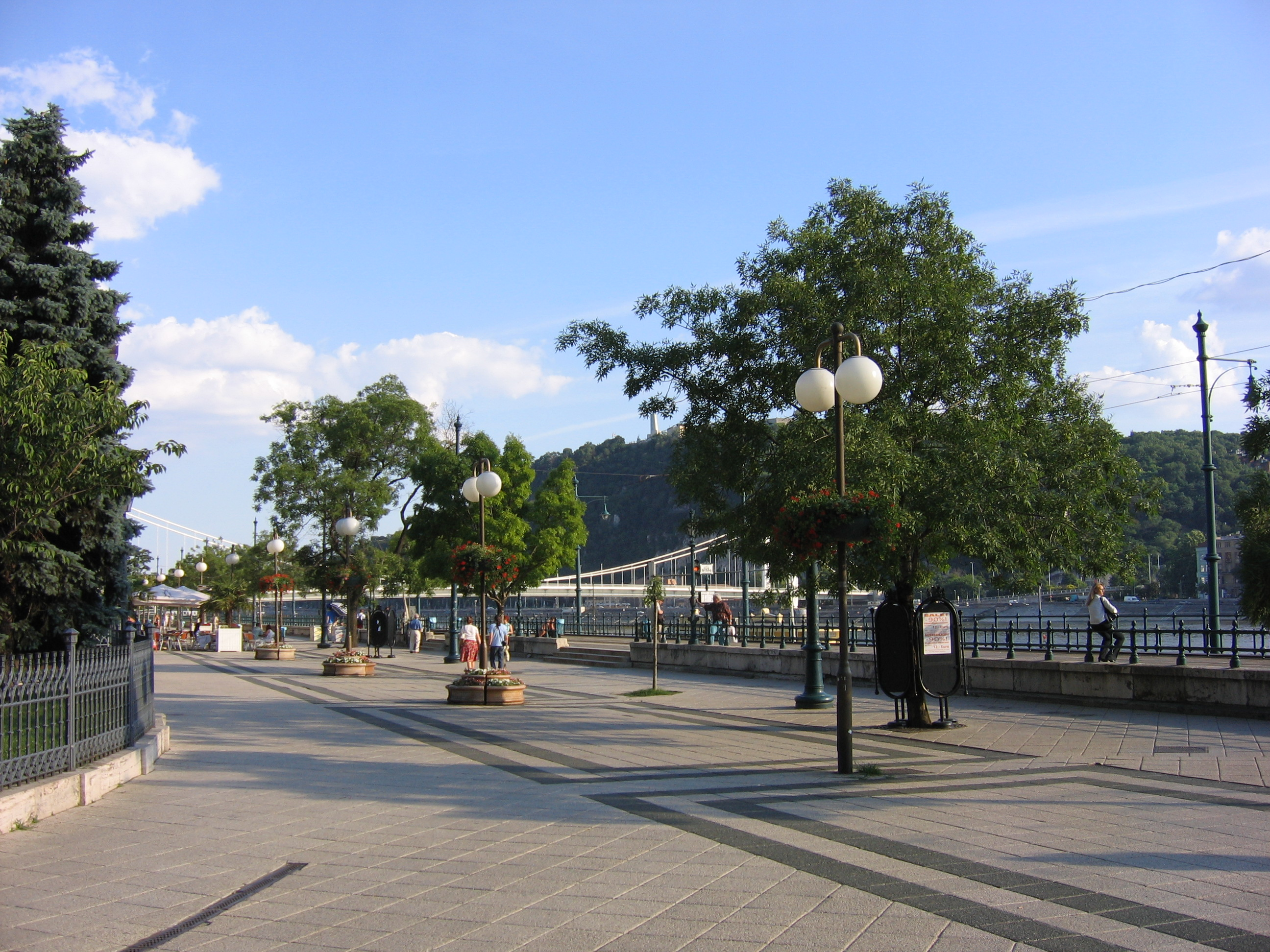 Scenes of Budapest (see filename) Sidewalk at the Danube river in Budapest